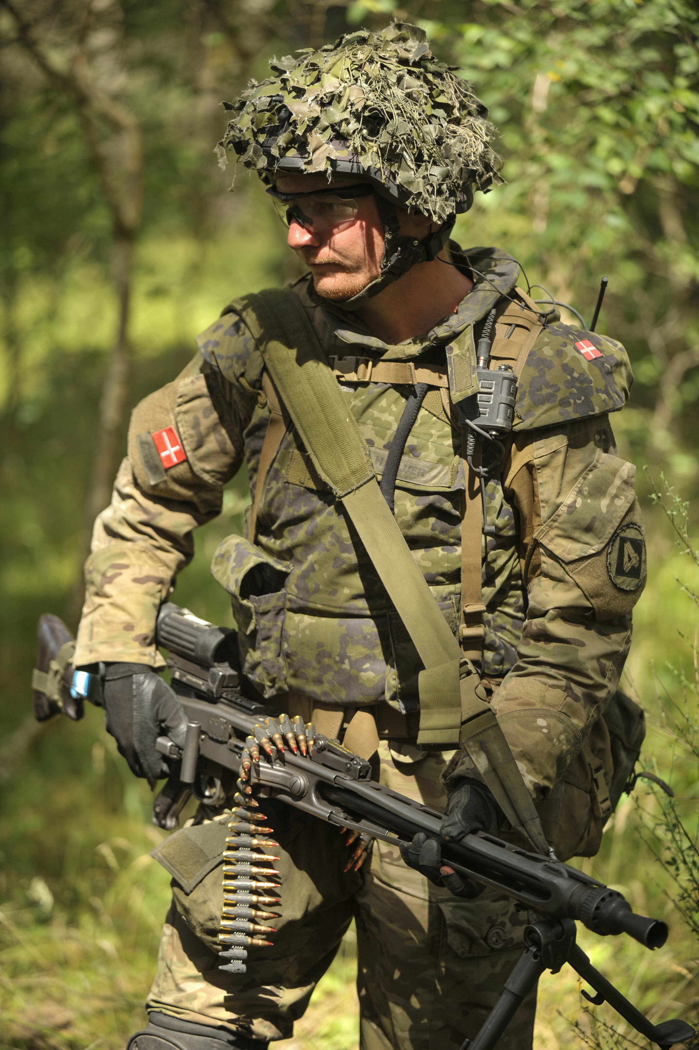 A soldier of the Royal Danish Army moves to an objective during a live-fire exercise at the 7th Army Joint Multinational Training Command's Grafenwoehr Training Area, Germany, July 4, 2014. The 7th Army JMTC provides dynamic training, preparing forces to execute Unified Land Operations and contingencies in support of the Combatant Commands, NATO, and other national requirements. (U.S. Army photo by Visual Information Specialist Markus Rauchenberger/released)